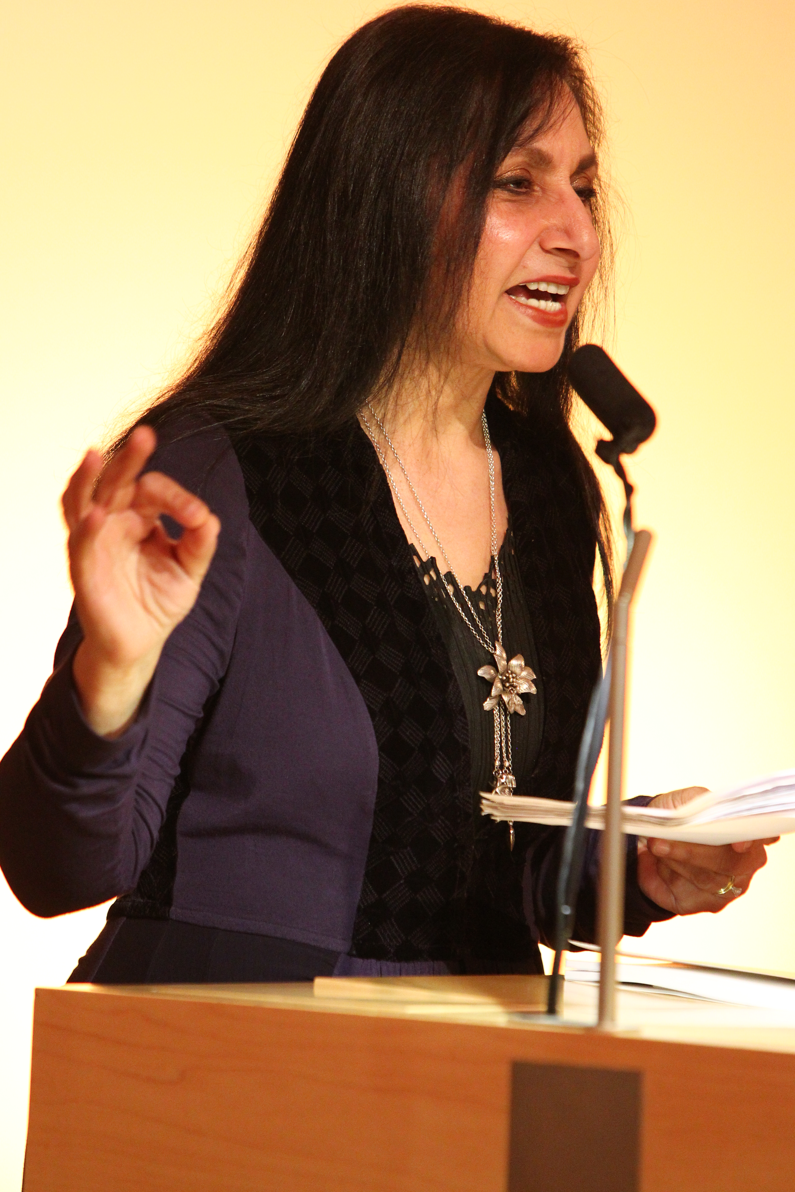 Imtiaz Dharker (1954—), Scottish/Pakistani Muslim poet, speaking at the British Library in 2011.